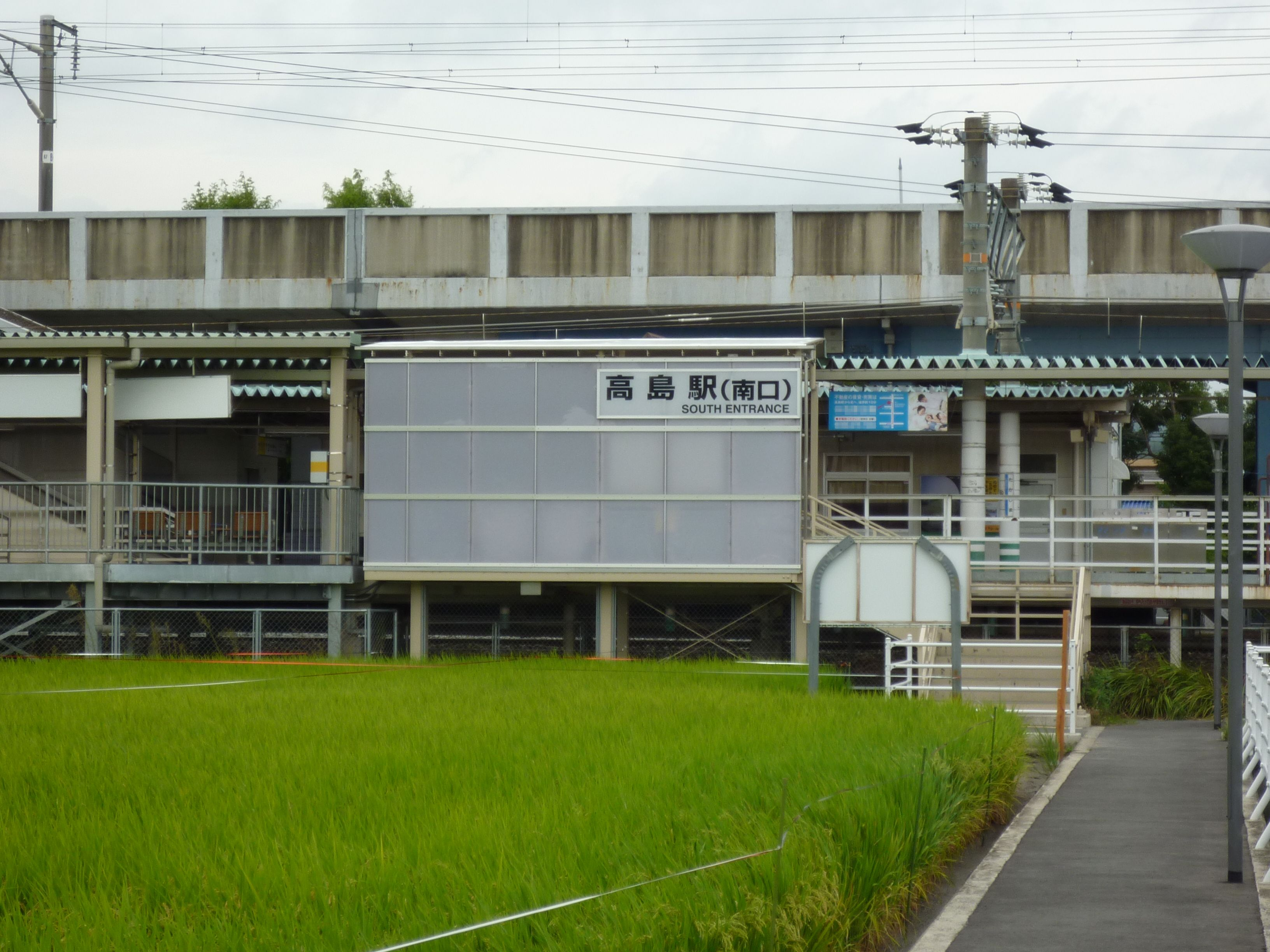 West Japan Railway, Sanyo Line, Takashima Station South entrance(Naka-ku,Okayama City,Okayama Pref,JPN)